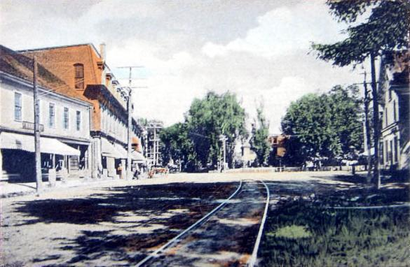 Main Street and Central Square, South Berwick, ME; from a c. 1910 postcard.